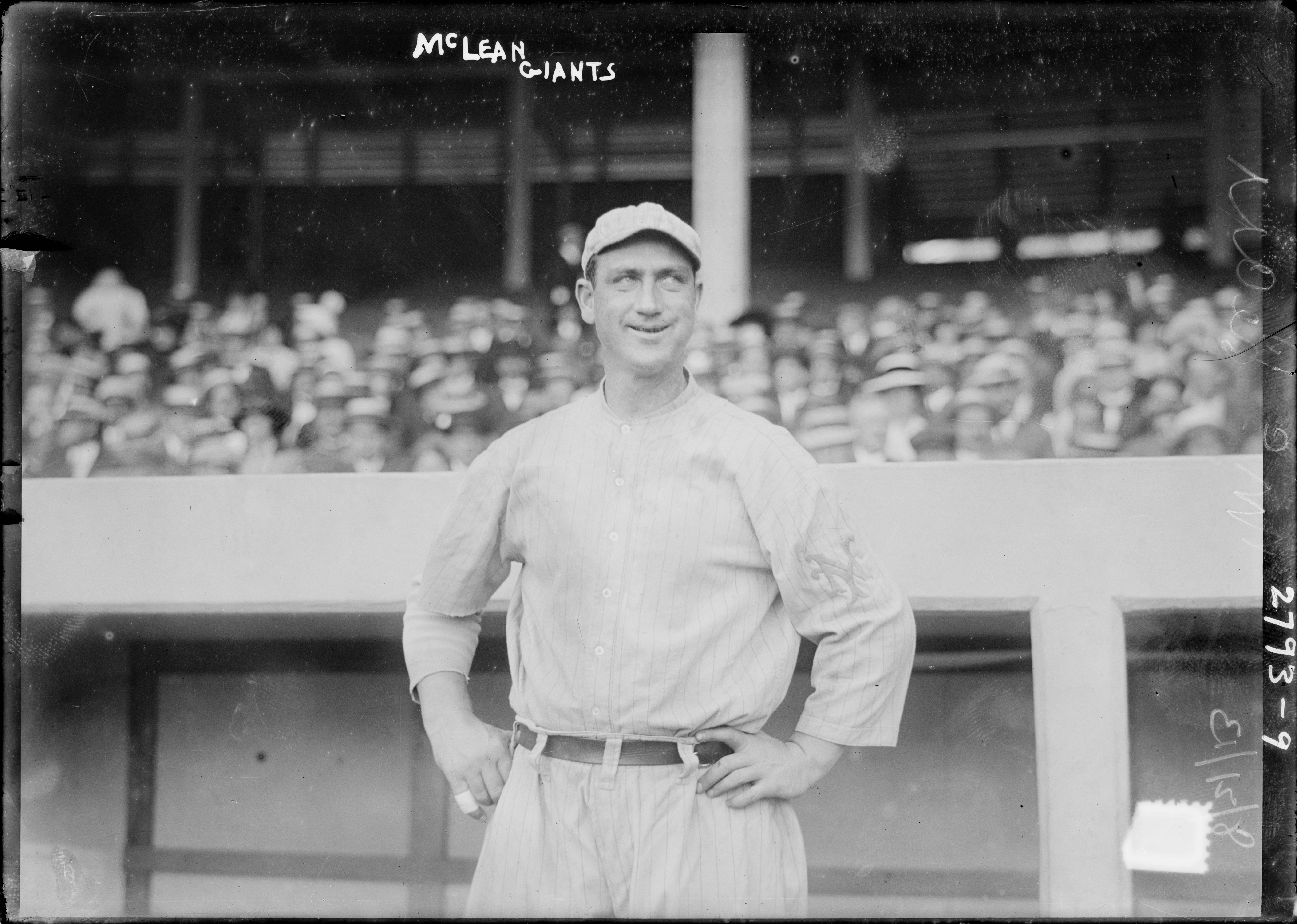 Original data provided by the Bain News Service on the negatives or caption cards: McLean - Giants. Corrected title and date based on research by the Pictorial History Committee, Society for American Baseball Research, 2006. Forms part of: George Grantham Bain Collection (Library of Congress).